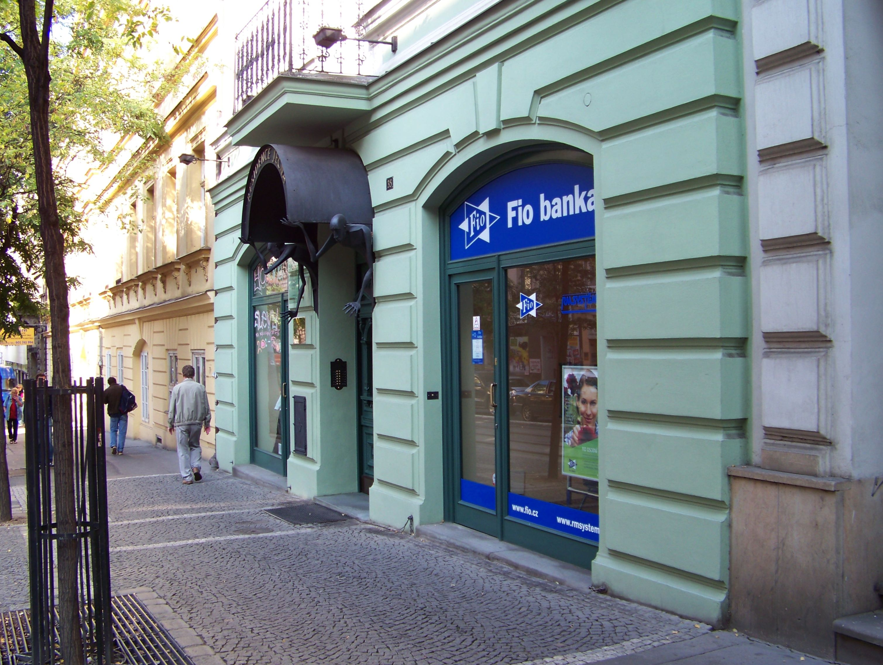 Prague-New Town, the Czech Republic. Ječná street, Fio banka.